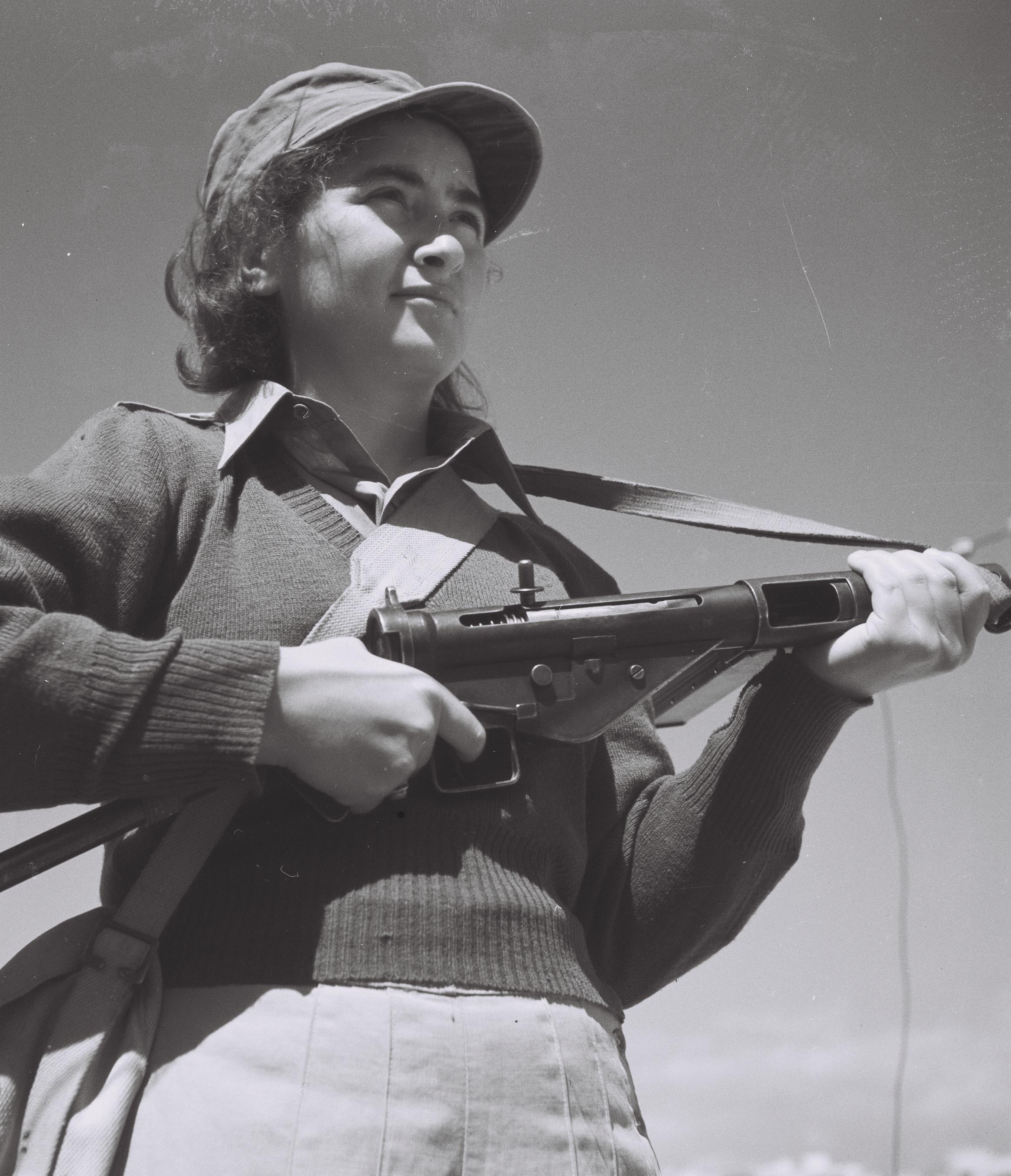 A hagana recruit with her weapon (17/03/1948).